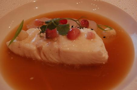 Poached Halibut in a Sesame court bouillon. This dish was served with baby radishes, some daikon and turnips. The vegetables were oh-so-sweet, which went along nicely with the slightly too salty broth. I found the flavours a bit too heavy handed on the salt factor here at LB. I would have liked the flavours a bit more muted. This was the same issue I had with JG's meal last year.